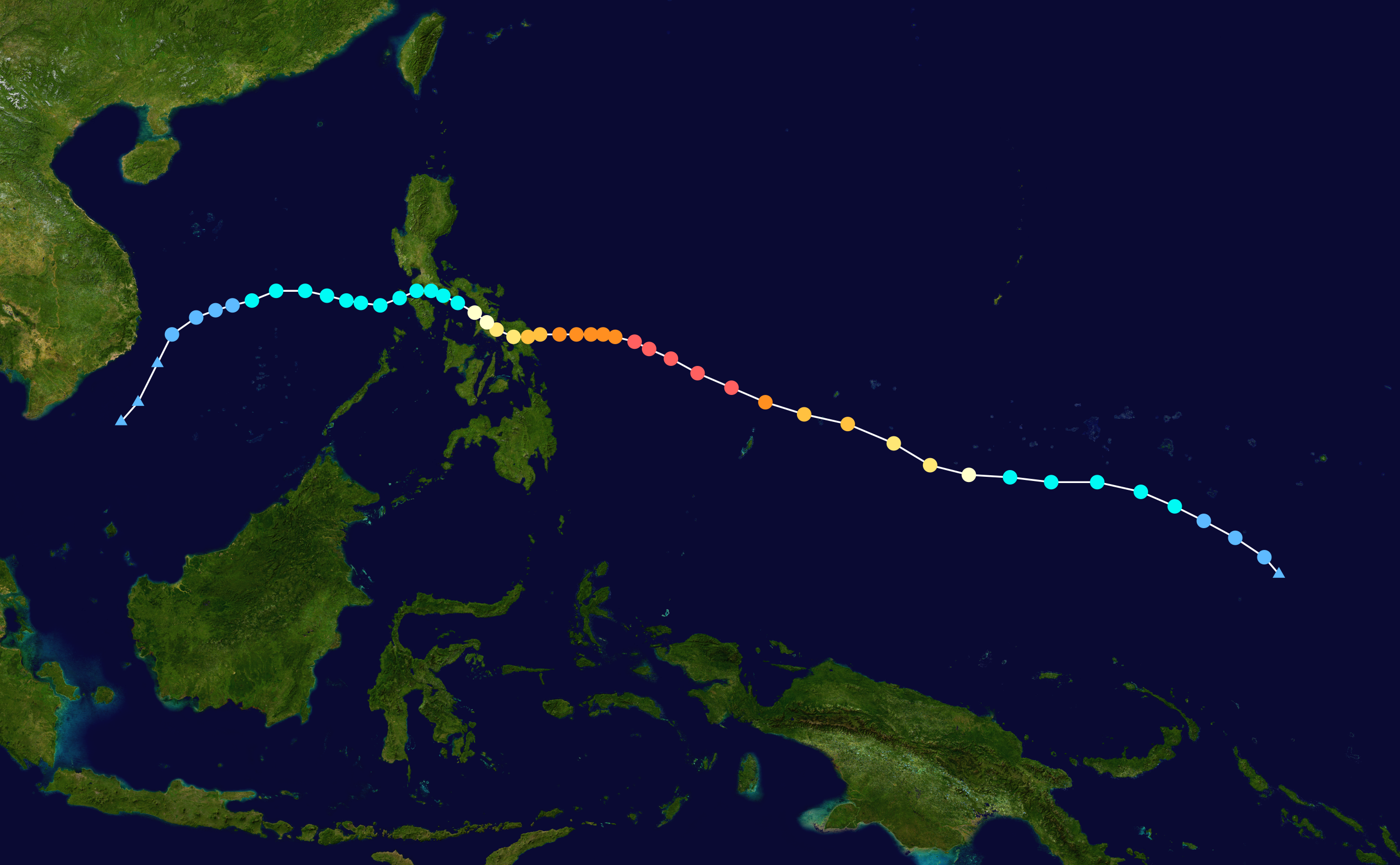 Track map of Typhoon Hagupit of the 2014 Pacific typhoon season. The points show the location of the storm at 6-hour intervals. The colour represents the storm's maximum sustained wind speeds as classified in the Saffir–Simpson scale (see below), and the shape of the data points represent the nature of the storm, according to the legend below. Saffir–Simpson scale Tropical depression≤38 mph≤62 km/h Category 3111–129 mph178–208 km/h Tropical storm39–73 mph63–118 km/h Category 4130–156 mph209–251 km/h Category 174–95 mph119–153 km/h Category 5≥157 mph≥252 km/h Category 296–110 mph154–177 km/h Unknown Storm type Tropical cyclone Subtropical cyclone Extratropical cyclone / Remnant low / Tropical disturbance / Monsoon depression